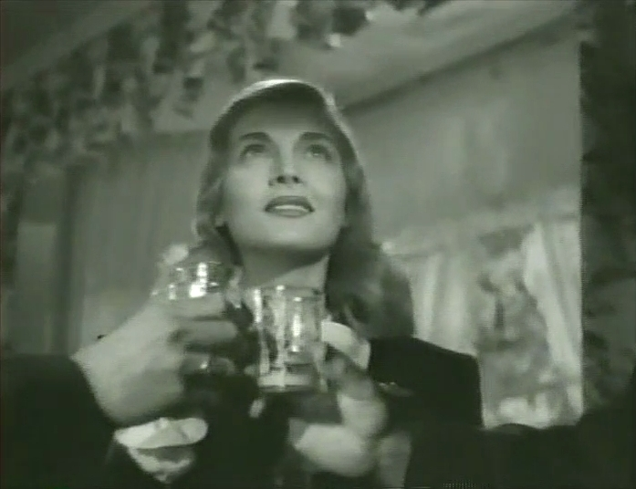 A screenshot of American actress Lizabeth Scott in the final scene of You Came Along (1945) Other information A search of the US Copyright Office catalog shows negative results